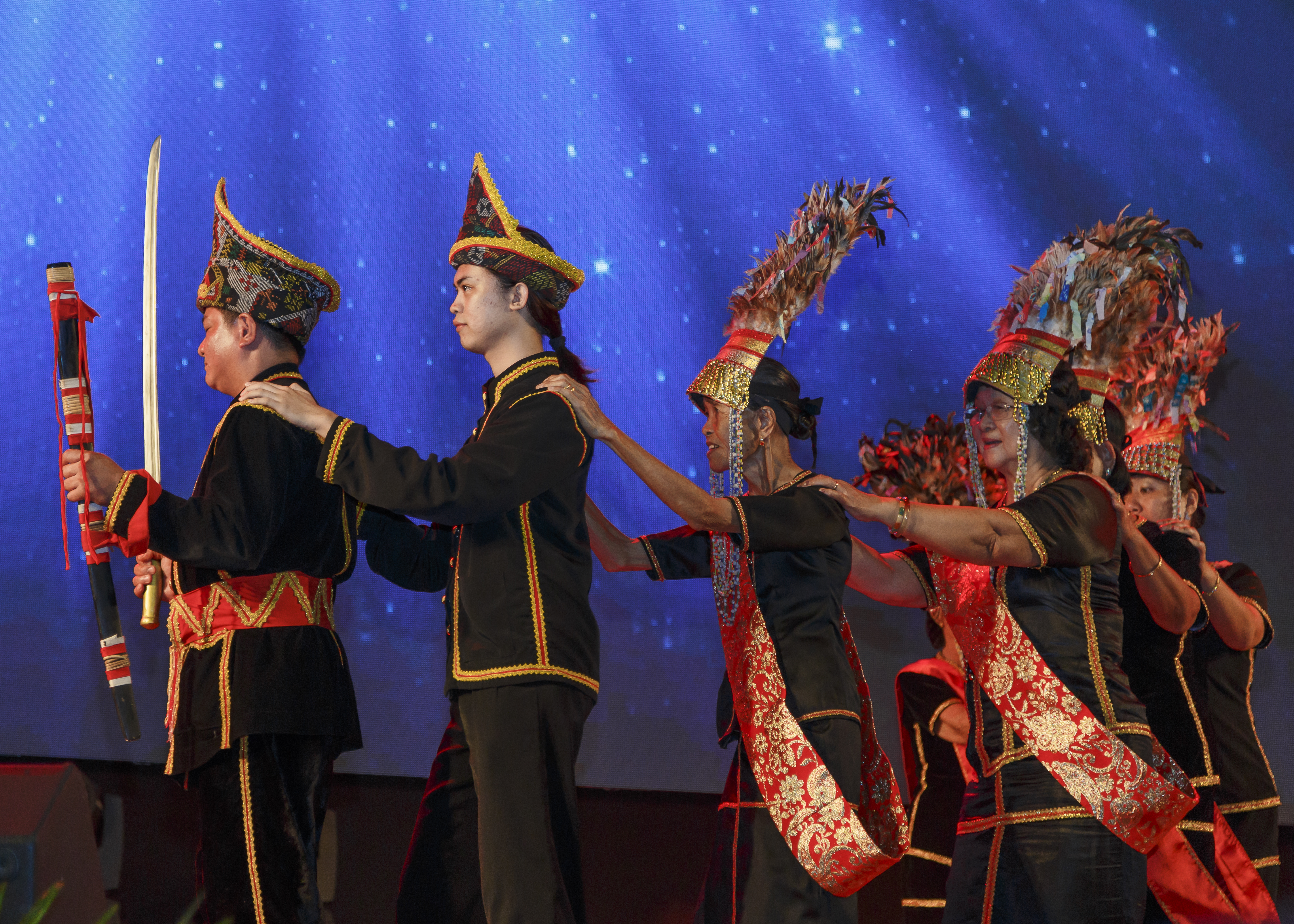 Penampang, Sabah: The male and female bobohizan - traditional priests and priestess of the Dusun people - perform the magavau, a ritual dance of the Harvest Festival Rituals. Photo taken in Hongkod Koisaan, the unity hall of KDCA